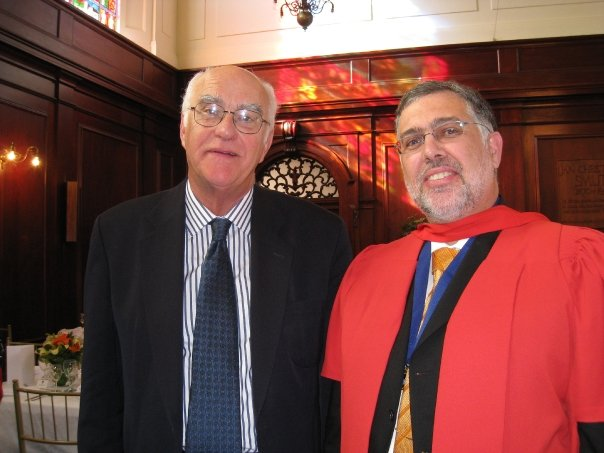 Attending the post-graduation VIP lunch at the University of Cape Town 13 June 2008 after being awarded his doctoral degree for Taxpayer's Rights in South Africa, Dr Beric John Croome,(right) in discussion about the South African Constitution with Retired Judge Ian Gordon Farlem, Chairman of the Judicial Commission of Inquiry into The Marikana Massacre. Other information Retired Judge Ian Gordon Farlem, Chairman of the Judicial Commission of Inquiry into The Marikana Massacre wrote the foreword to Croome's book "Taxpayers' Rights in South Africa."